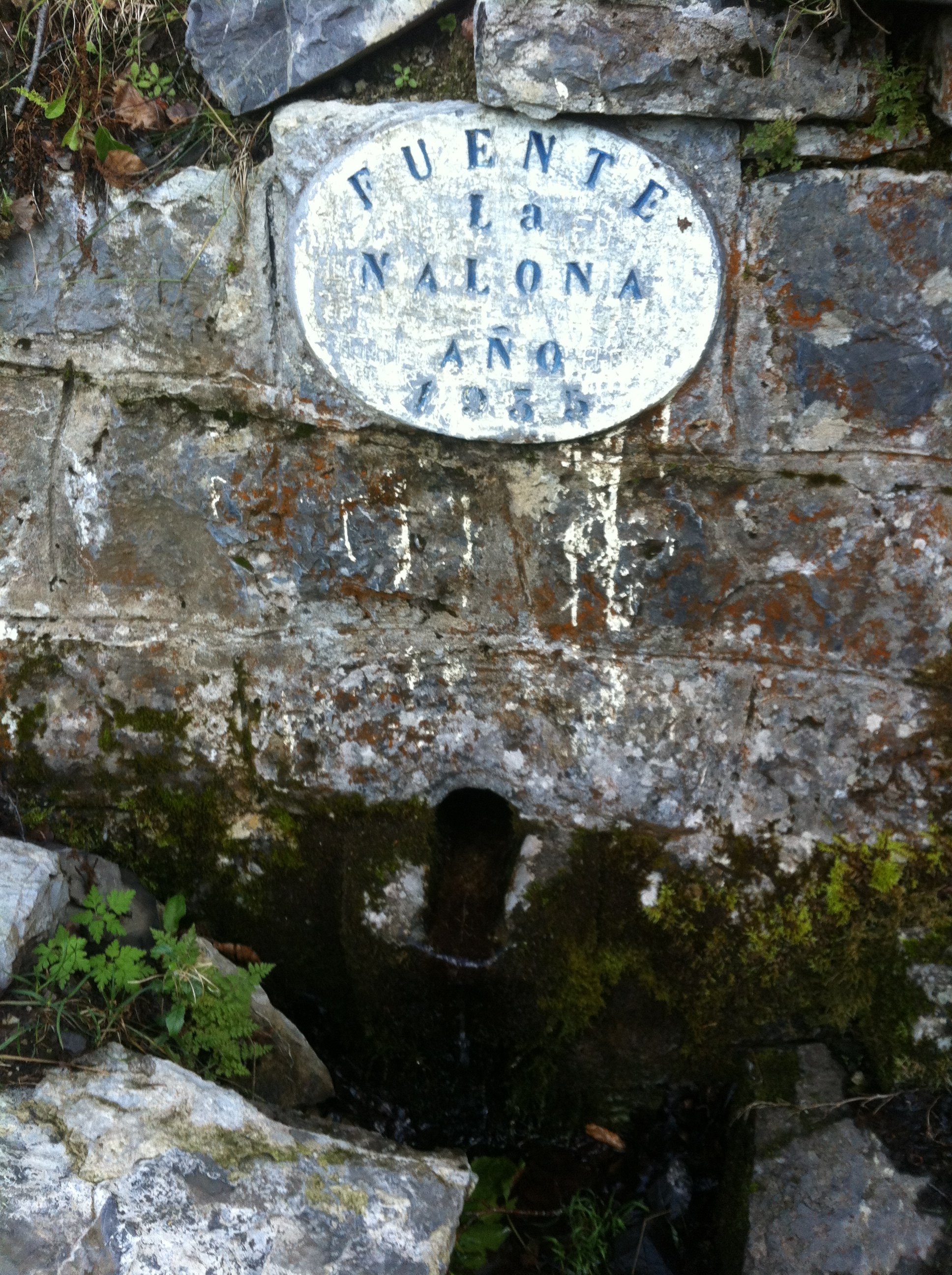 Fonte la Nalona, llugar de nacencia del ríu Nalón, nel puertu de Tarna (Casu, Asturies). Fonte la Nalona, birthplace of the river Nalón (Casu, Asturies, Spain).